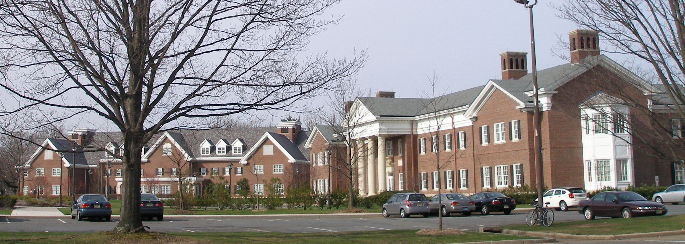 TCNJ School of Business, to the left of Paul Loser Hall